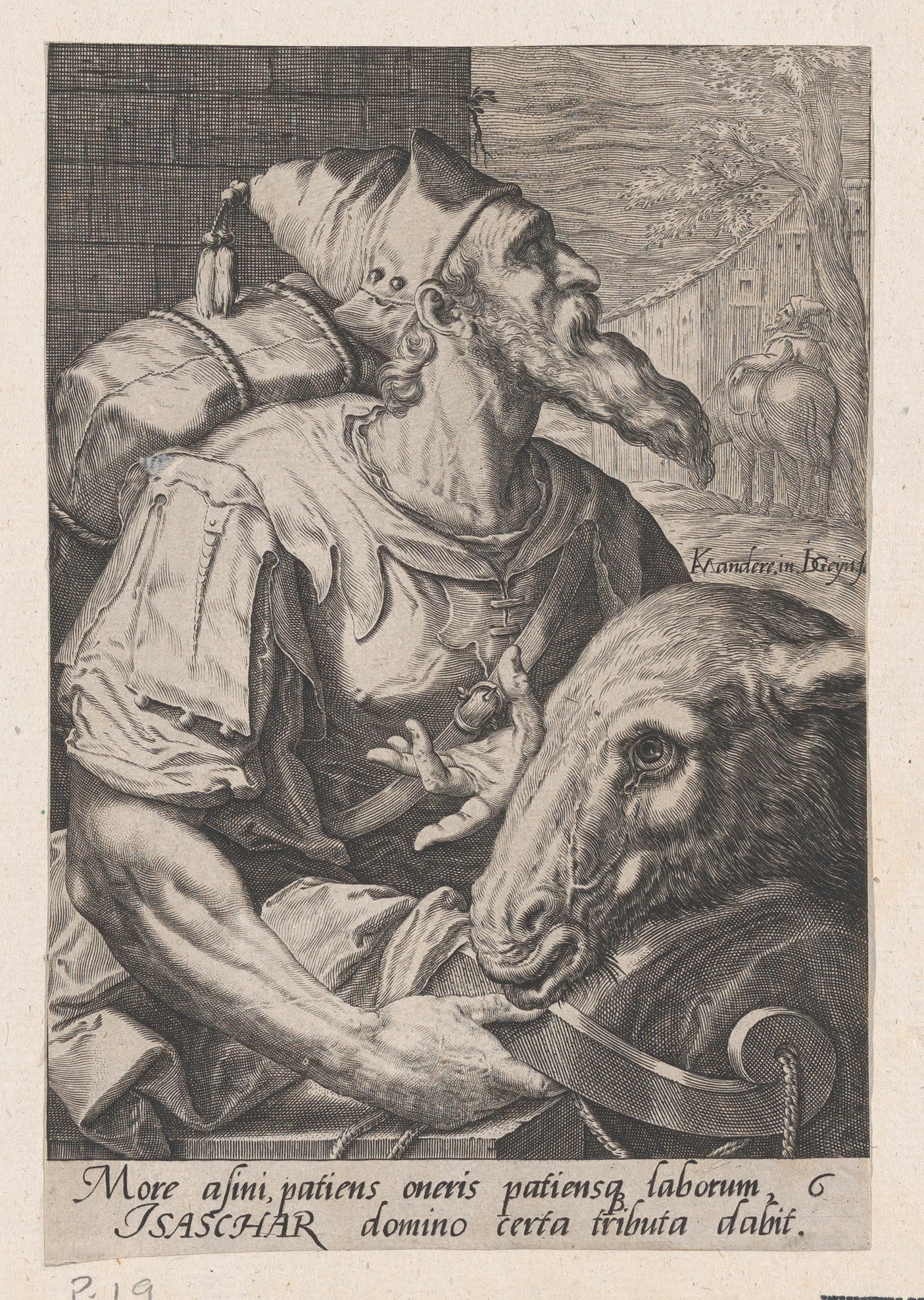 Print; Prints